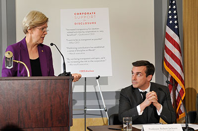 Senator Elizabeth Warren and Professor Robert J. Jackson Jr. at a briefing on corporate political spending disclosure.